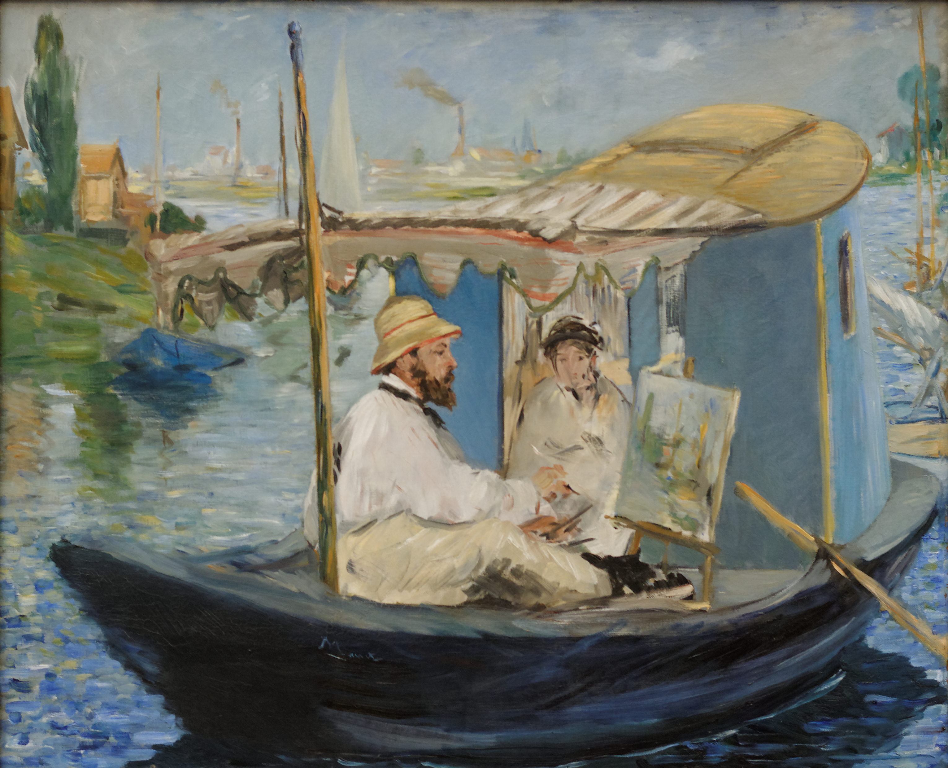 Impressionist portrait of Claude Monet painting, in a boat on the Seine in Argenteuil.